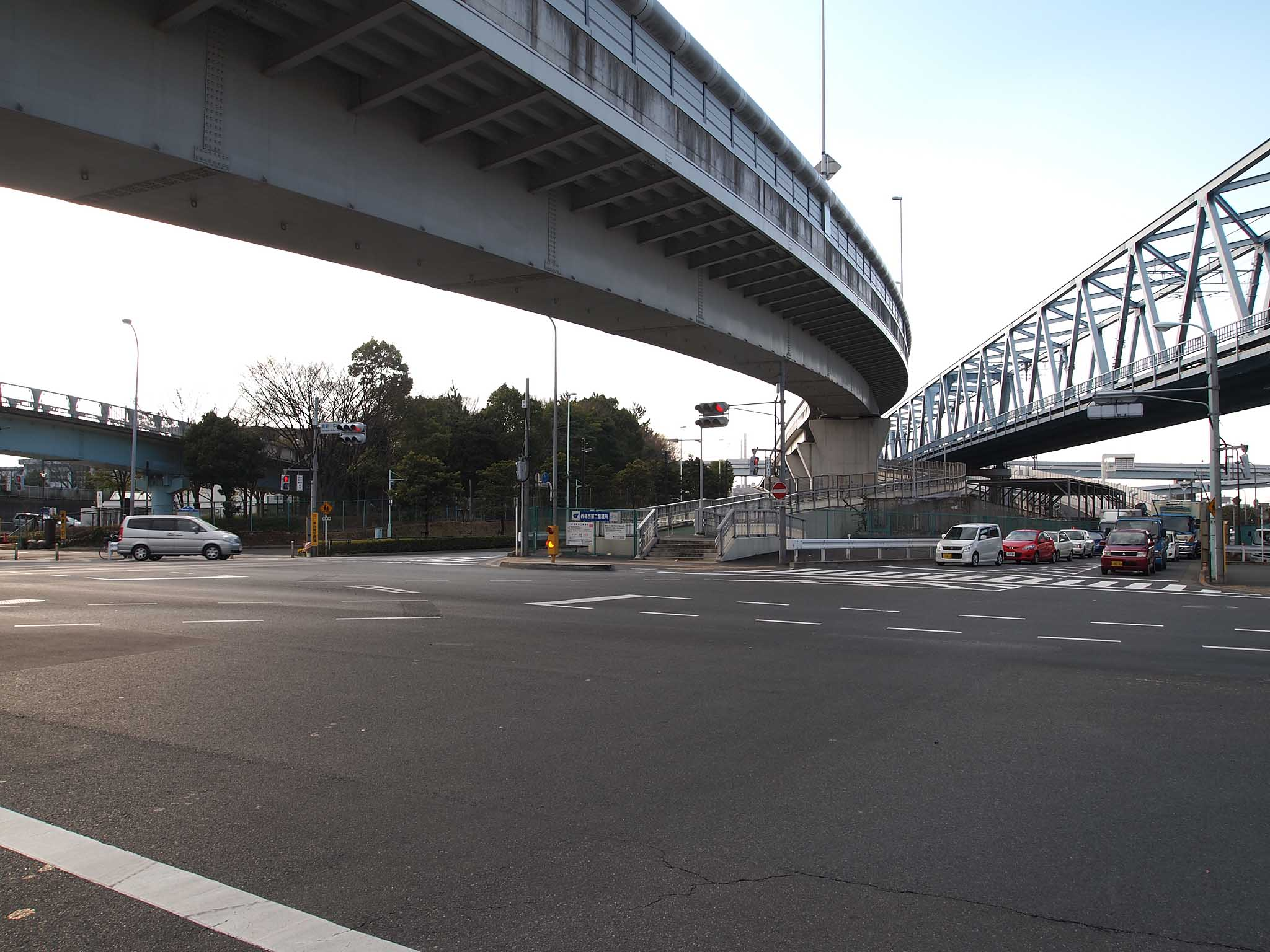 Seishin 1-chu_Kita (North of Seishin Daiichi Junior Highschool) Crossing, view from east. Entrance of Seishincho rampway undercross, and East boud of Kiyosuna Ohashi Bridge overcross this crossing.